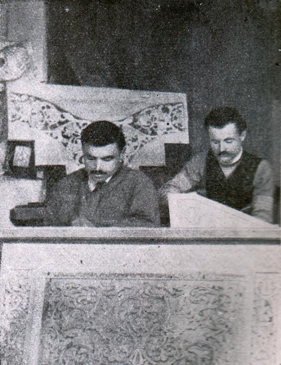 Family photo of Philipovs woodcarvers